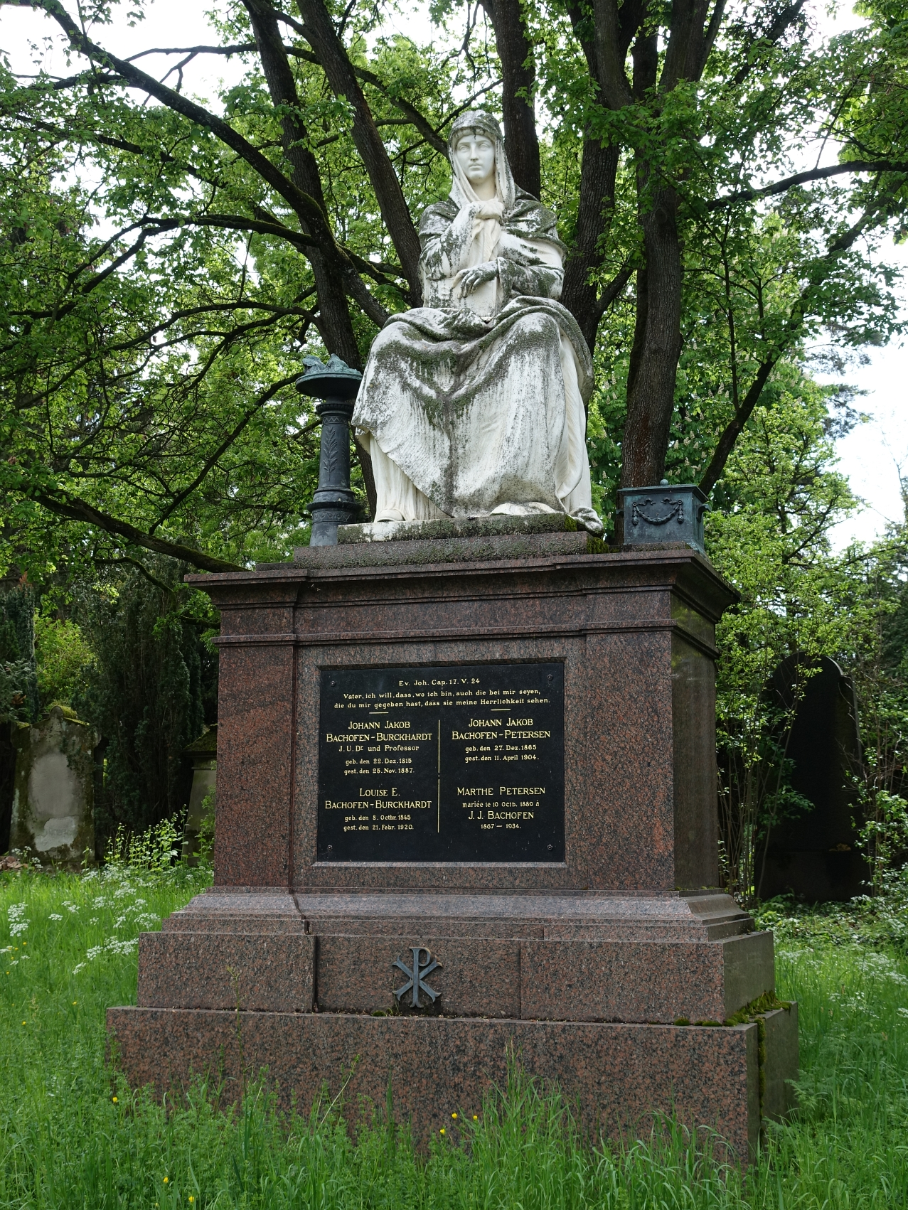 Grab Denkmal von Richard Kissling (1848-1919) Bildhauer, Medailleur für Johann Jakob Bachofen-Burckhard (1815-1887) Rechtsgelehrter, Altertumsforscher, Familien Grab Bachofen-Burckhardt-Petersen, Friedhof Wolfgottesacker, Basel, Schweiz.